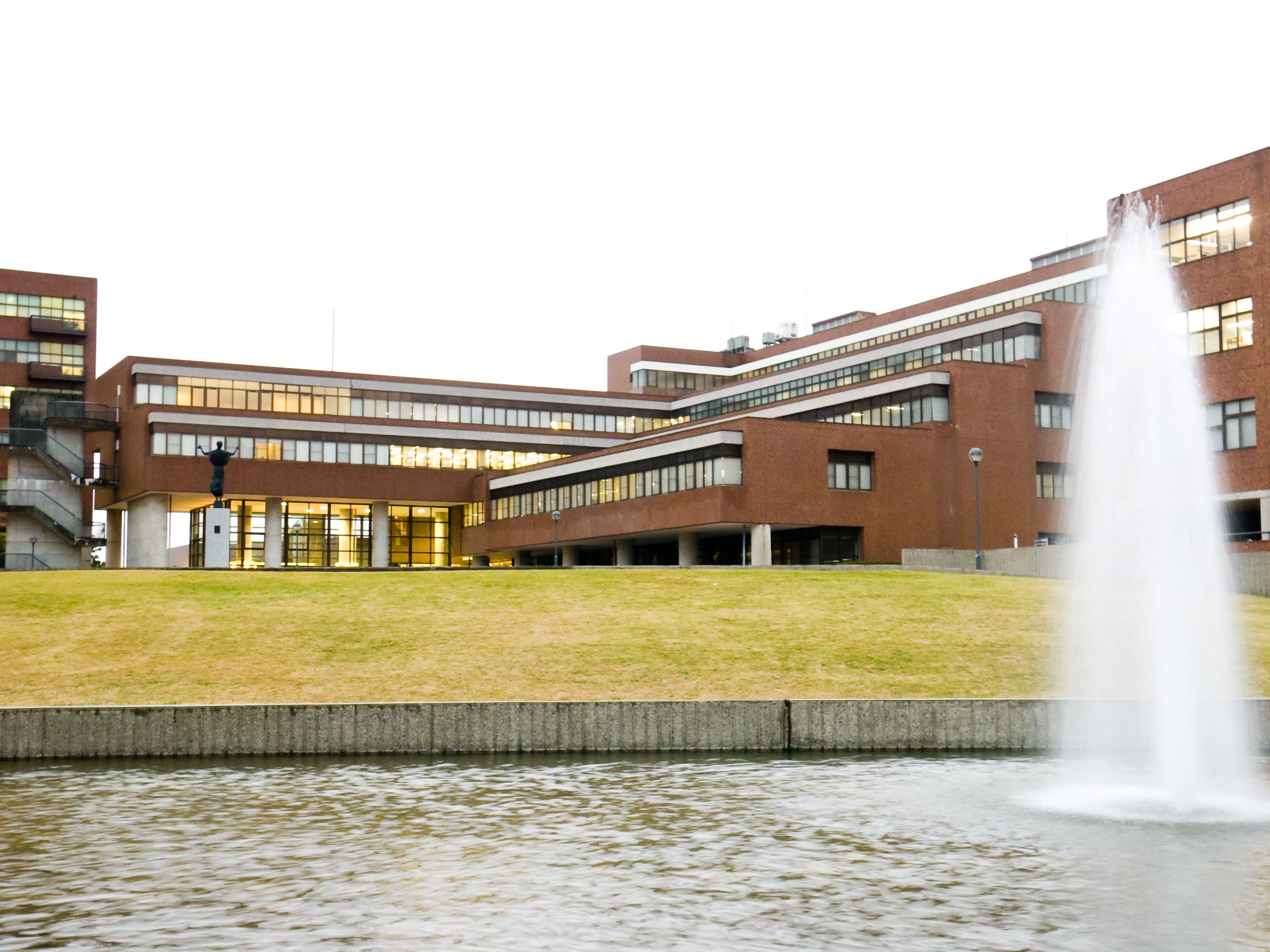 Central Library, University of Tsukuba